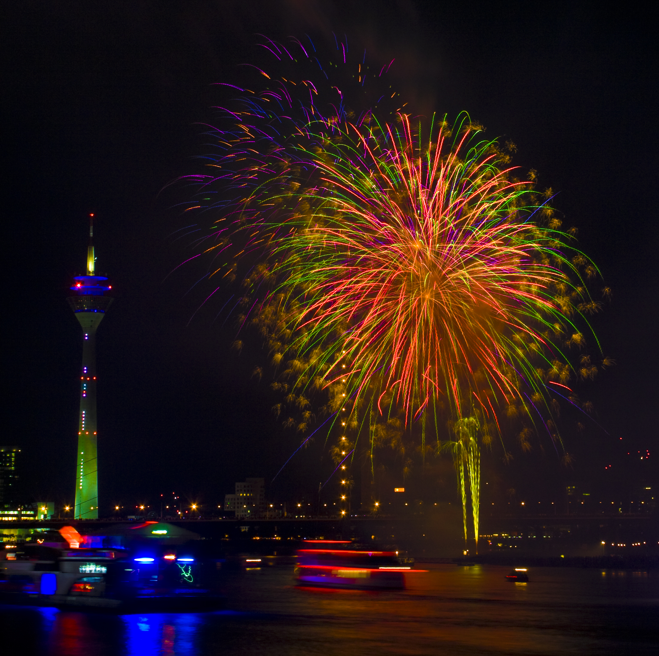 Düsseldorf firework